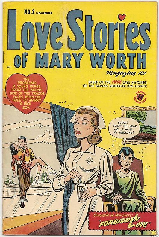 Comic book cover of Love Stories of Mary Worth #2 November 1949